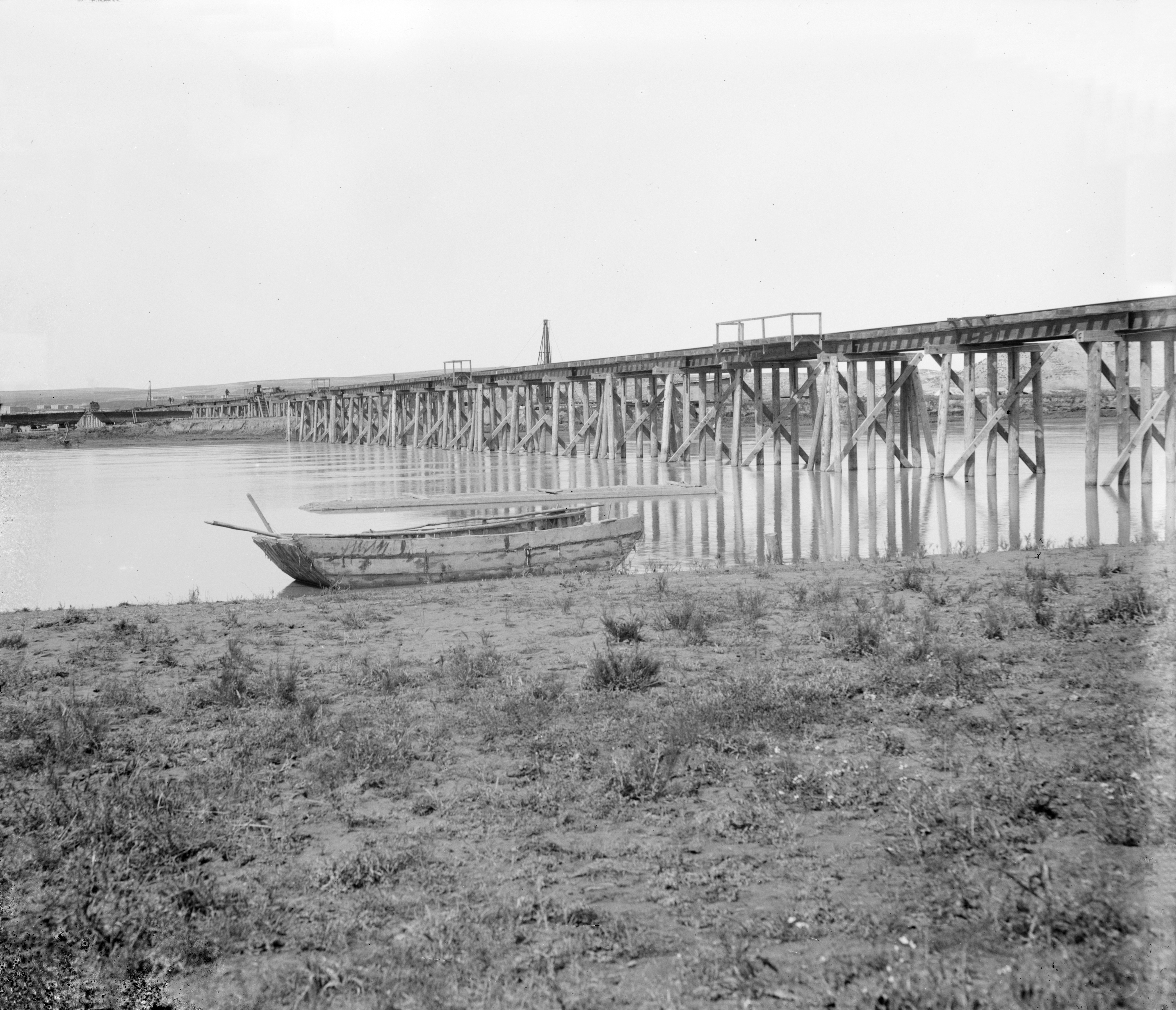 A wooden bridge of the Baghdad Railway across the river Euphrates, circa 1900-1910.